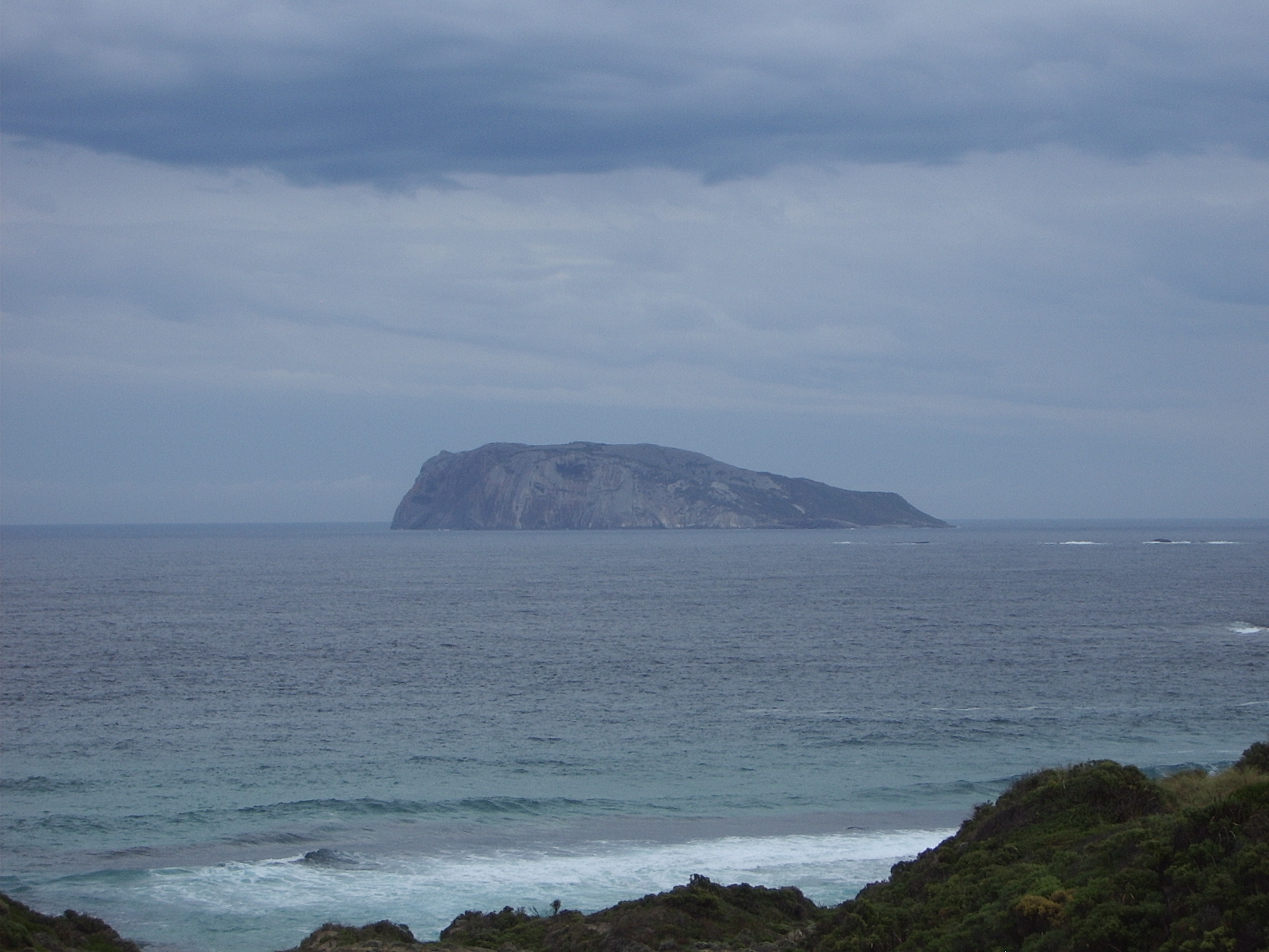 Photo of Chatham Island taken from Long Point, D'Entrecasteaux National Park Western Australia by me 8/5/2008 .